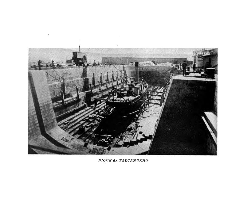 Chile at the Pan-American Exposition: Brief Notes on Chile and General Catalogue of Chile Exhibits Published 1901